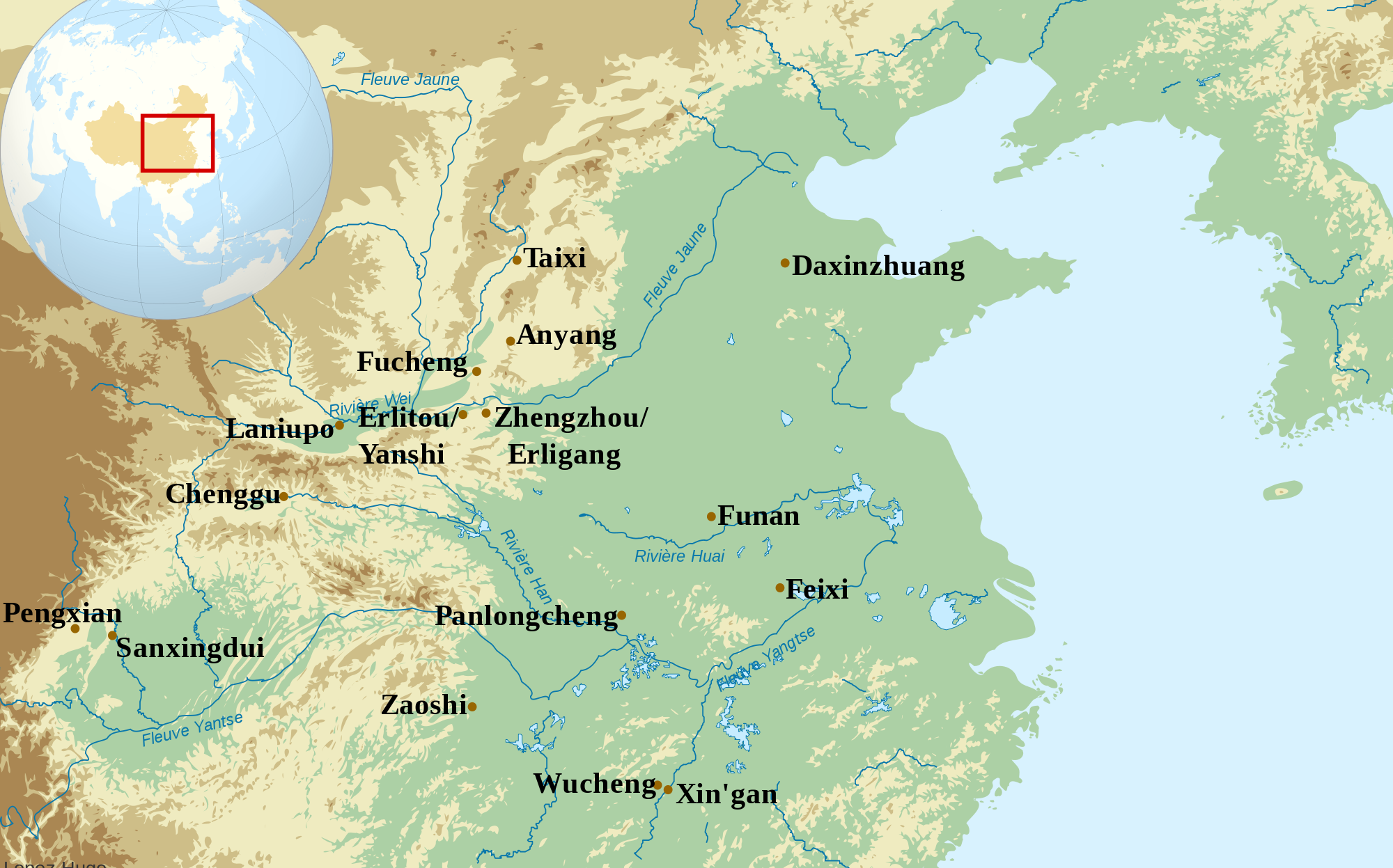 Shang dynasty sites